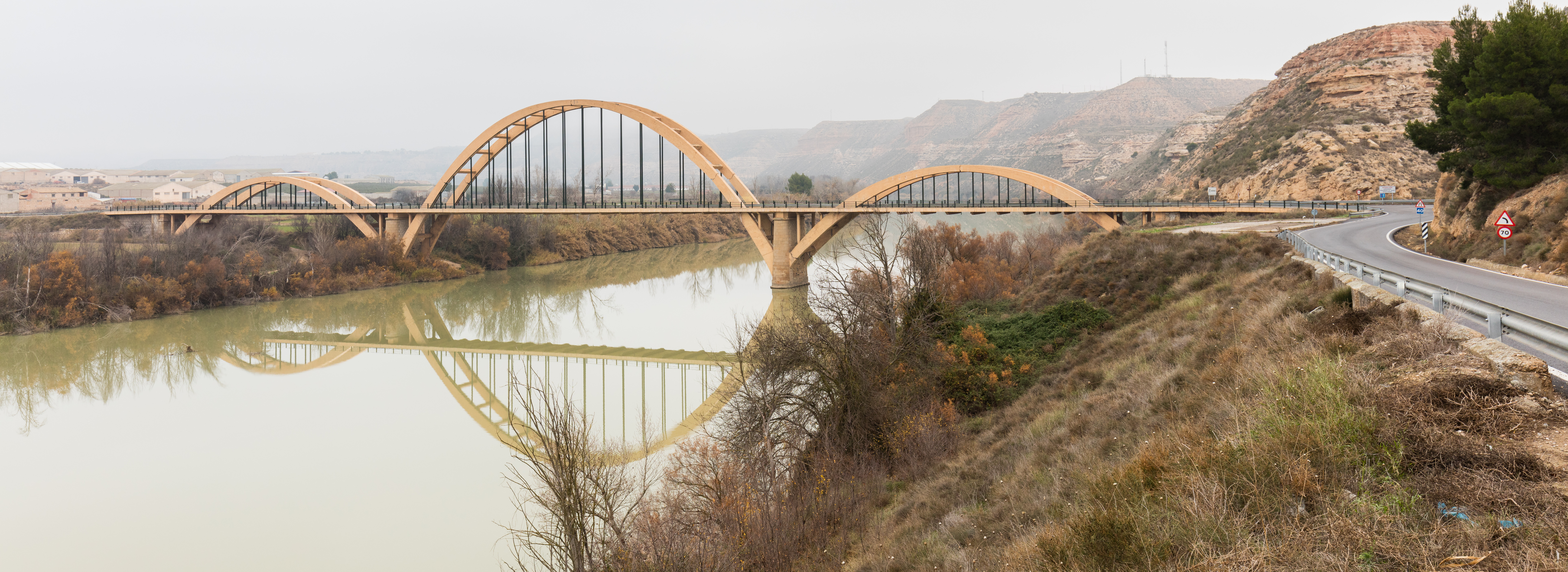 Bridge over the Ebro River, Sástago, Zaragoza, Spain